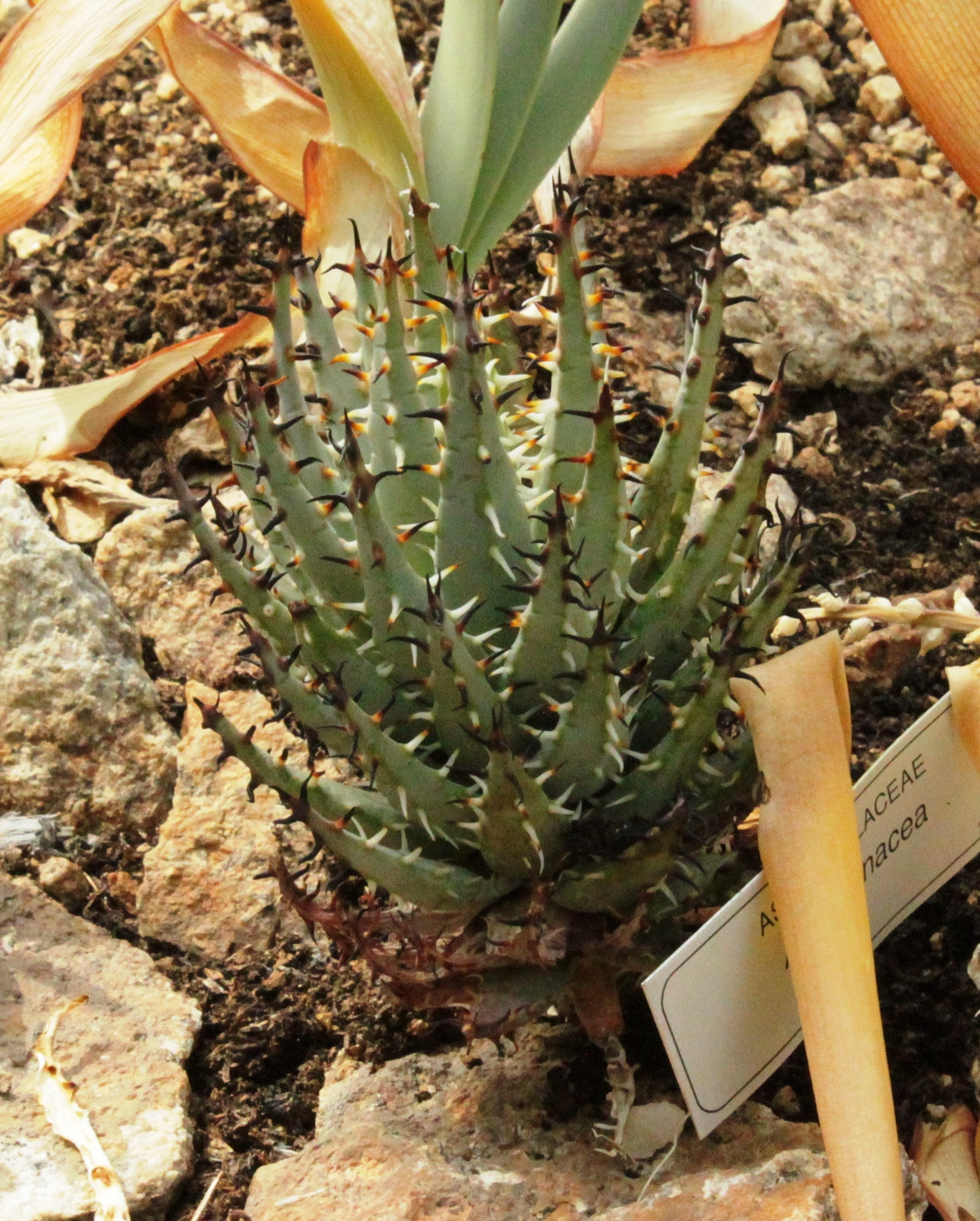 Aloe erinacea. The Hedgehog Aloe. Small specimen in Kirstenbosch gardens. South Africa.